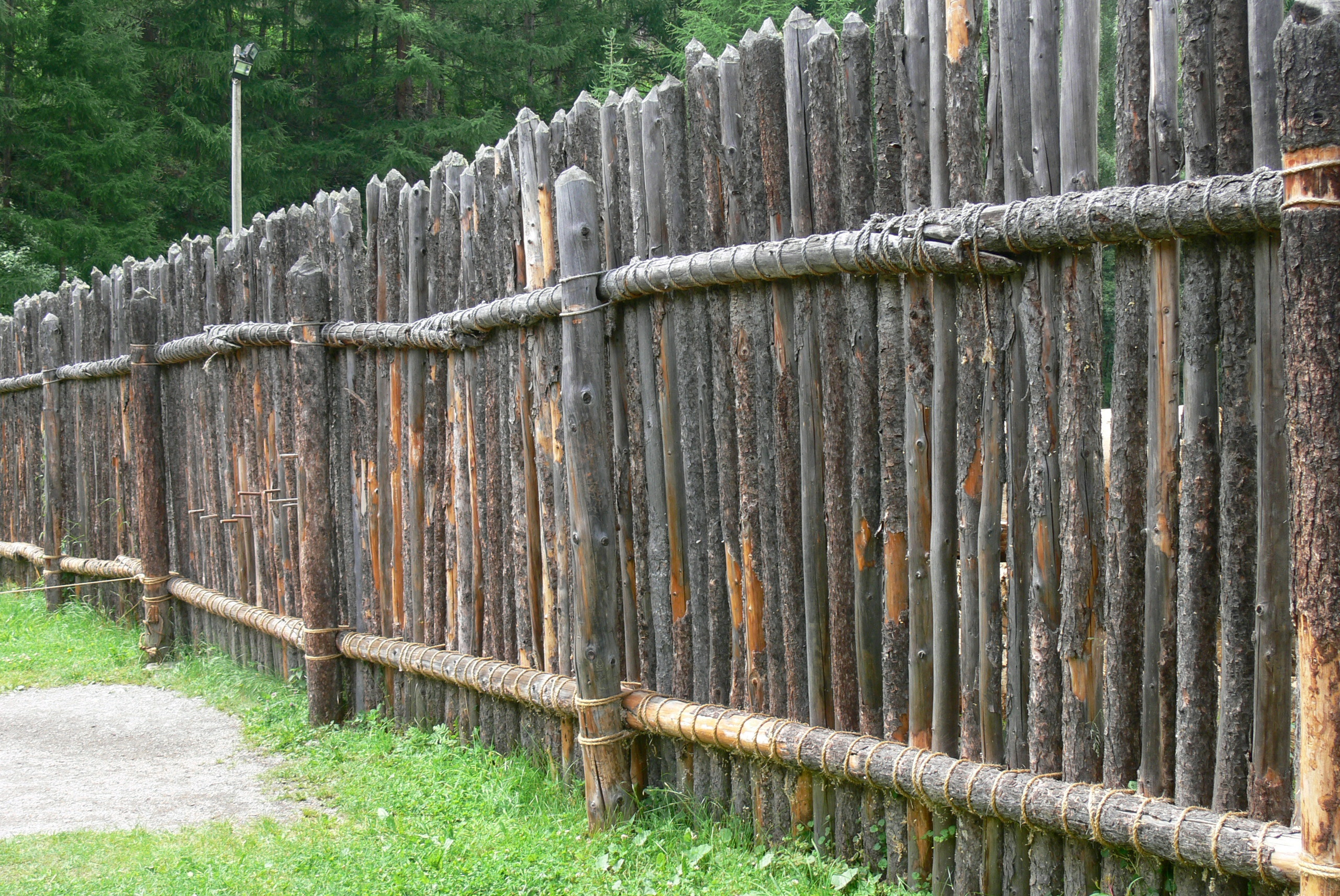 Archeoparc ( Schnals valley / South Tyrol ). Reconstruction of a neolithic palisade.